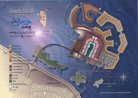 Amwaj Islands - Master Plan